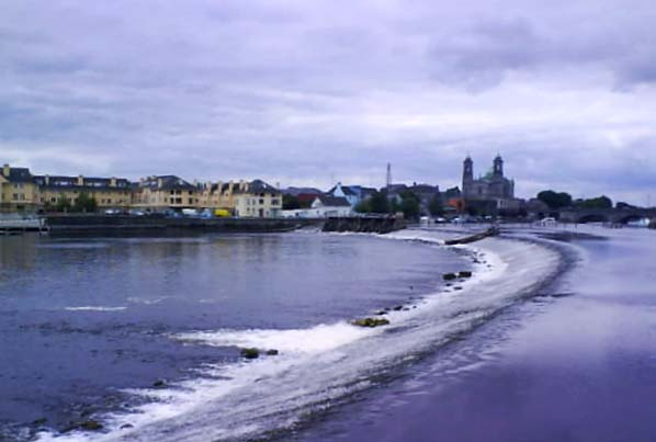 The weir wall in Athlone.